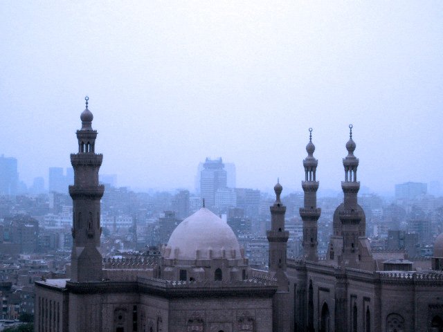 Fortground Ancient and Background Modern Taken from Mohamed Ali Citadel, Citadel Taken at 2:20 pm It was Cloudy and Hazey all the day and the weather was good to some extend as the temprature was 27°C with a very moderate Humidity and this was a very good weather for may!! Explore: #111 on November 16, 2008